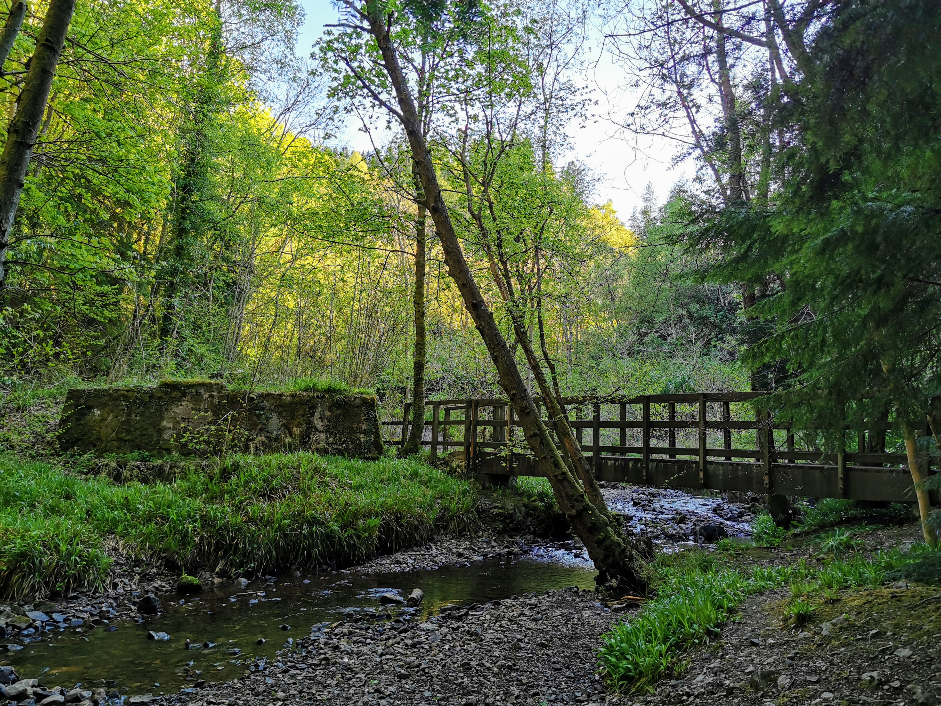 A wooden footbridge over the stream that passes through Nant-y-Ffrith woods, on the border between Flintshire and Wrexham. The remains of a building can be seen on the Wrexham side of the stream.